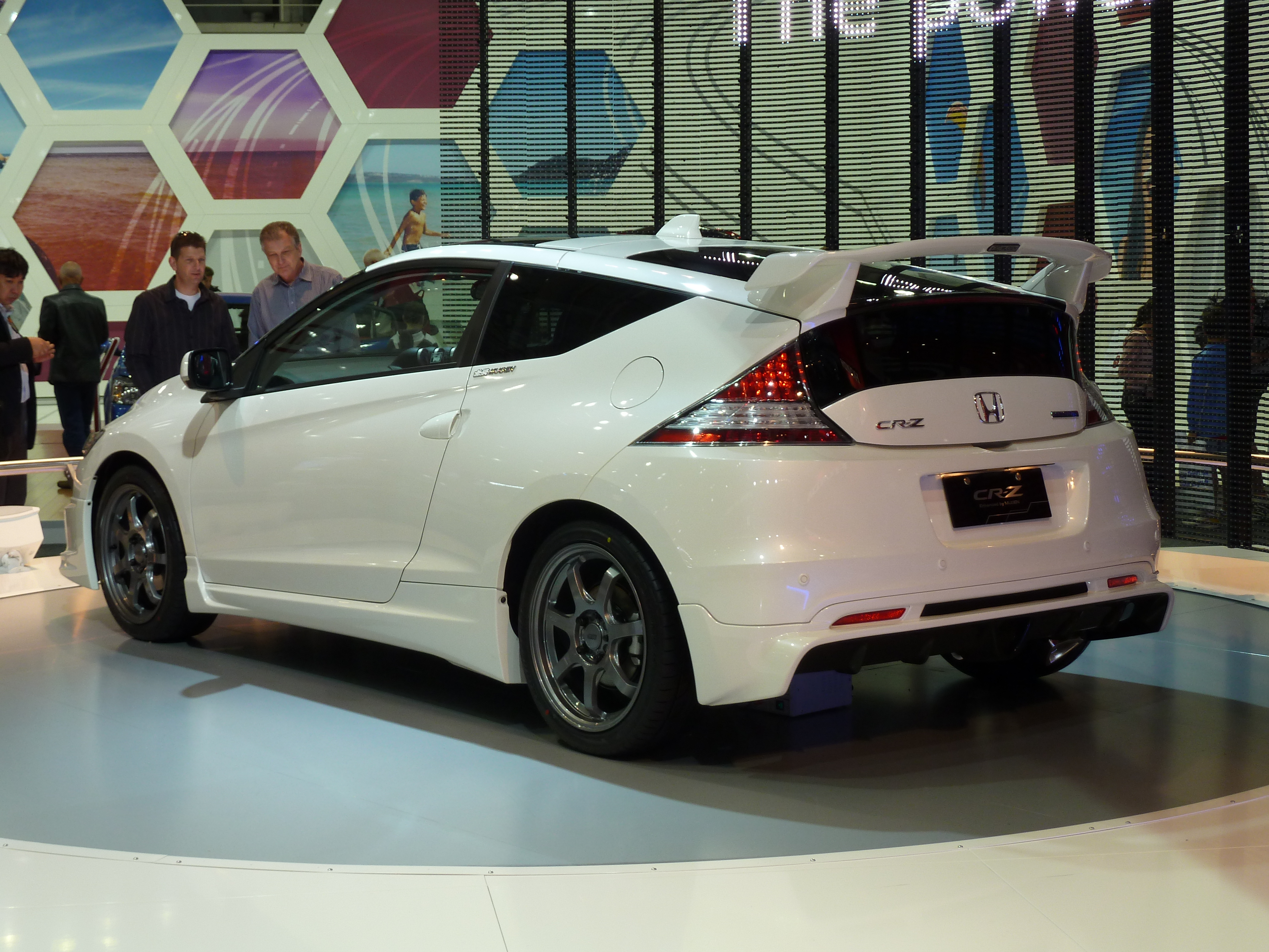 Honda CR-Z Mugen hatchback. Photographed at the 2010 Australian International Motor Show, Sydney, New South Wales, Australia.